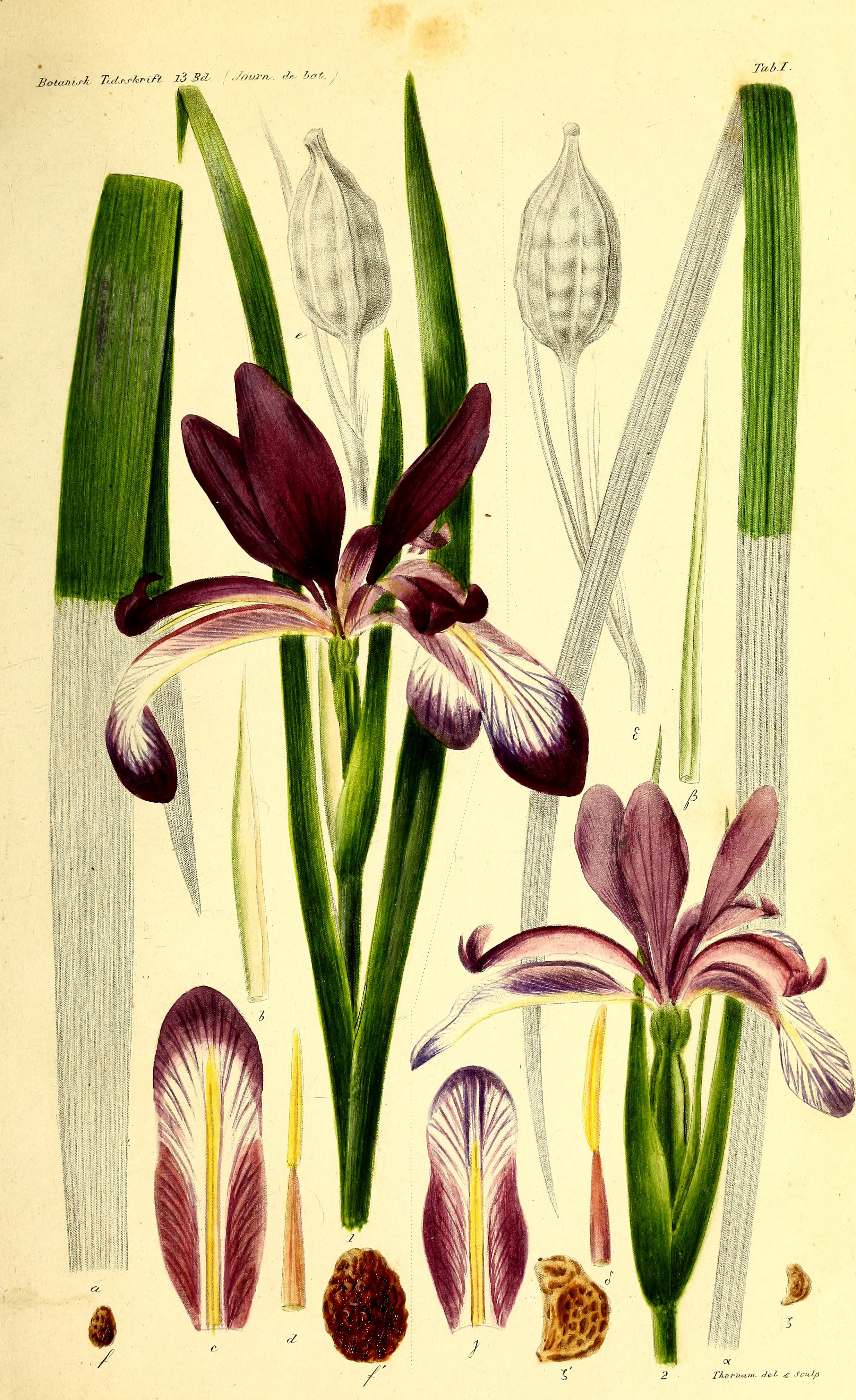 Title: Botanisk tidsskrift Year: 1866 (1860s) Authors: Botaniske forening i København Subjects: Botany; Plants; Plants Publisher: København : H. Hagerups Forlag Text Appearing Before Image: ' Text Appearing After Image: '